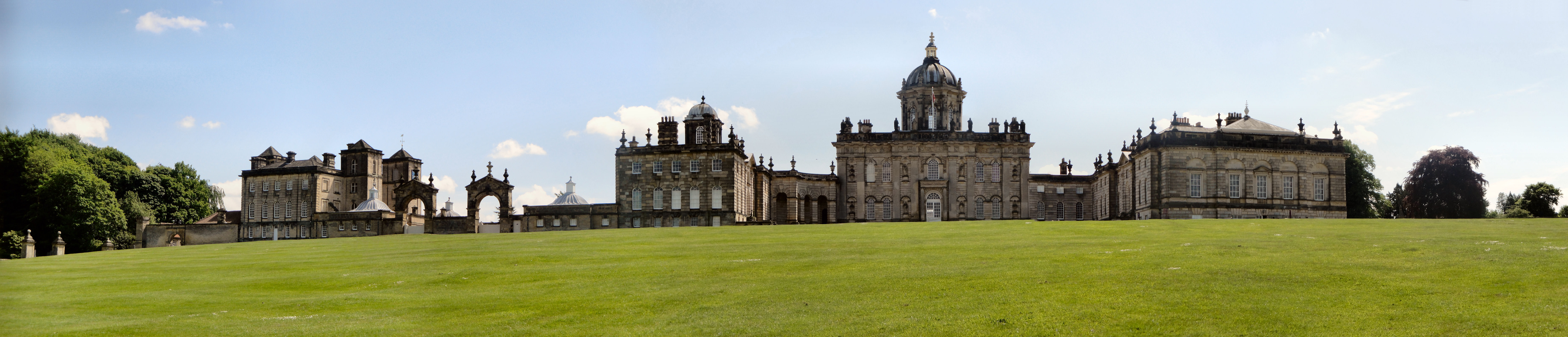 Panoramic shot of the northern facade (seen from the lake) of Castle Howard